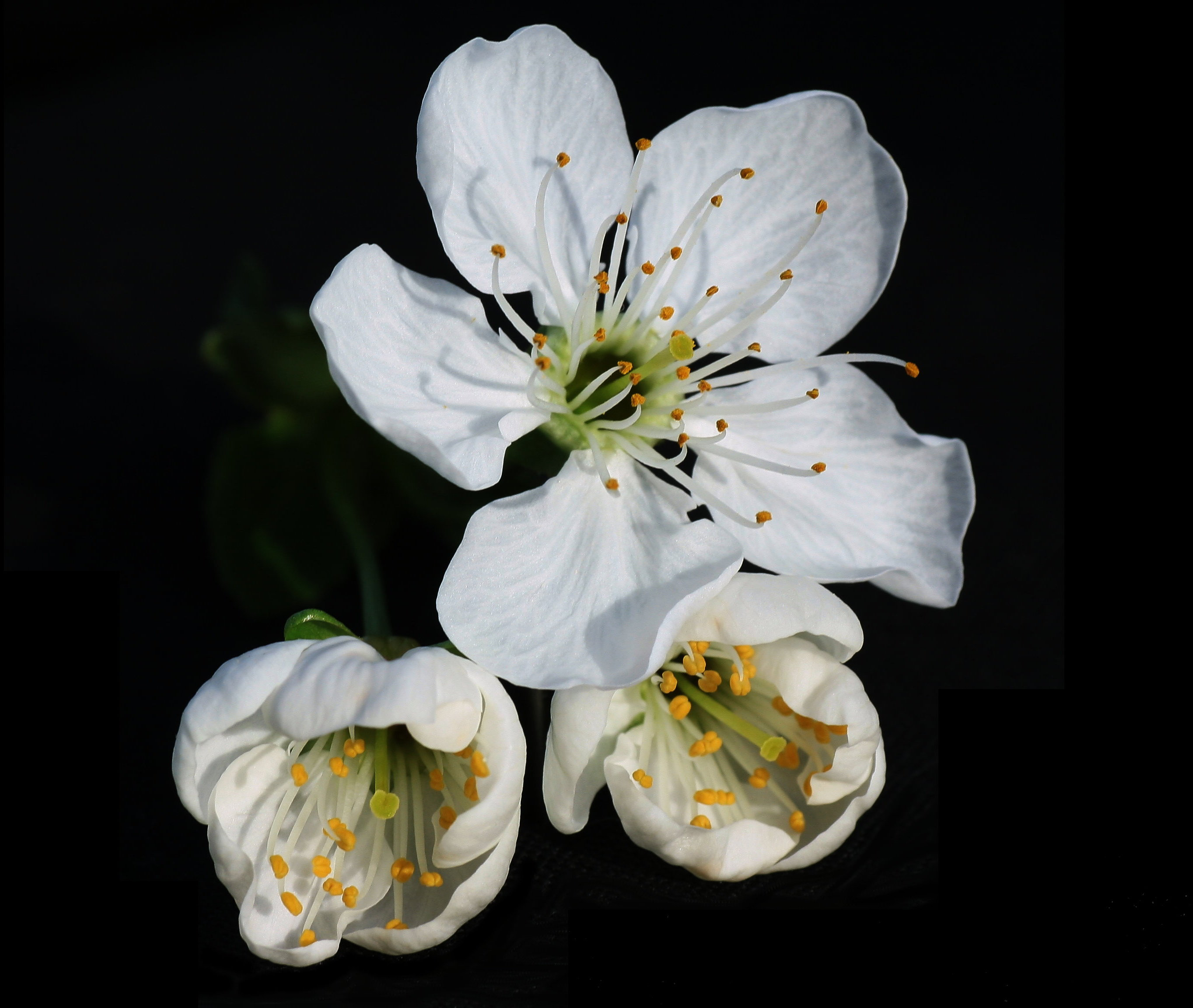 Blossom of a Prunus cerasus